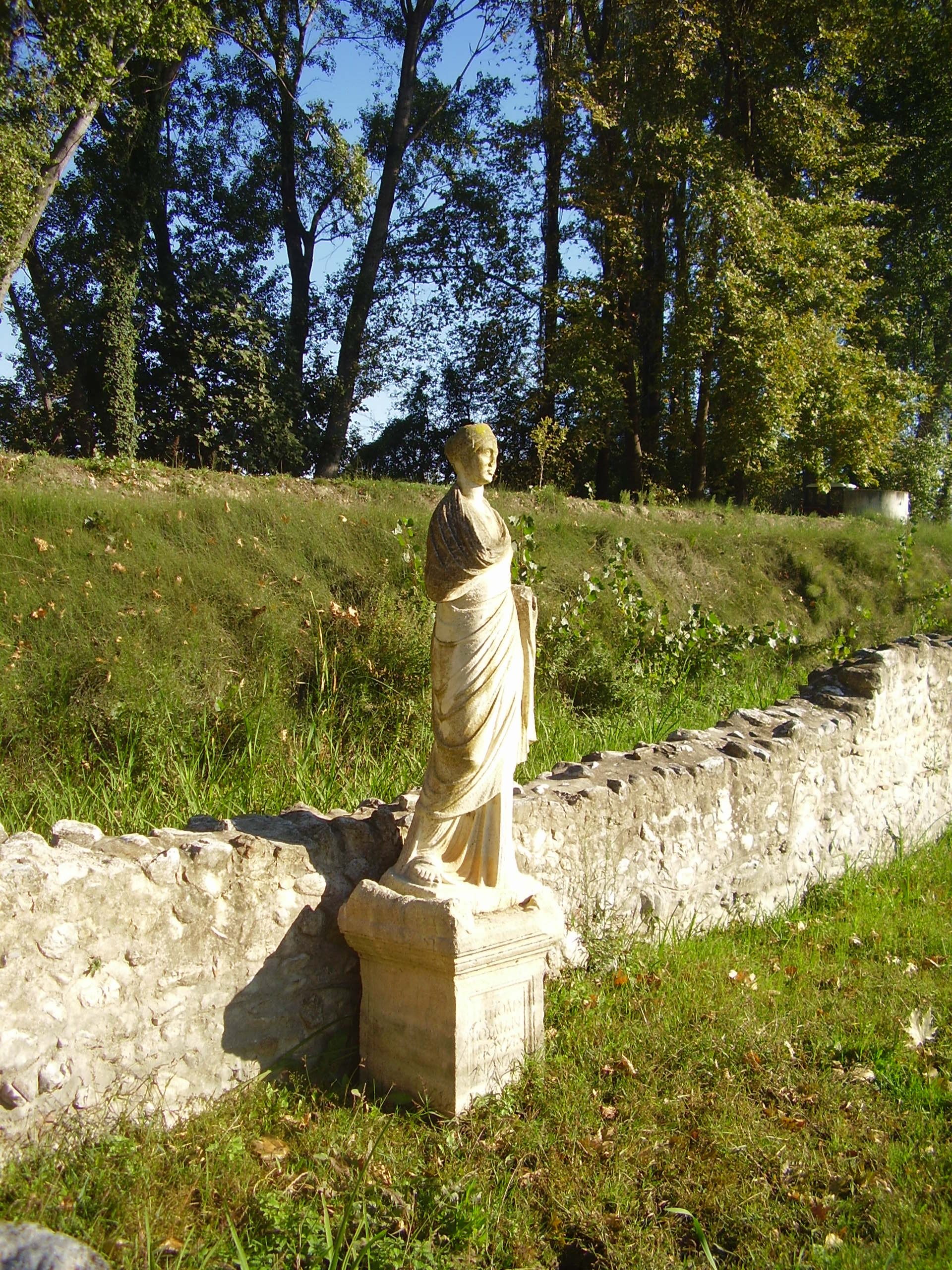 Statue at the Archaeological site at Dion, Greece